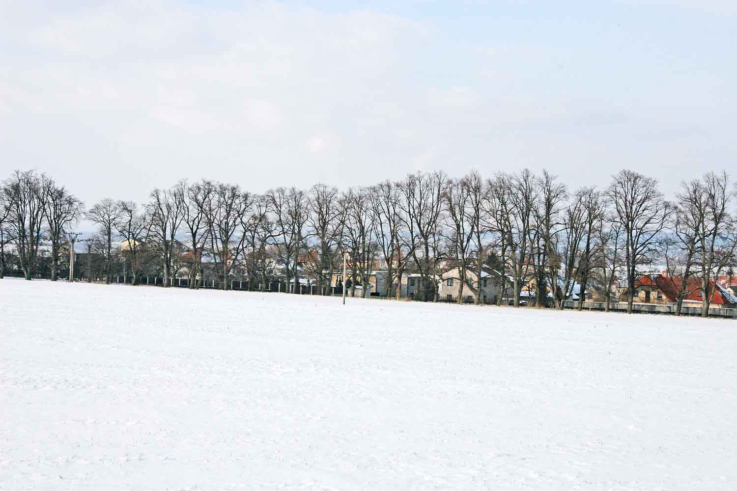 Tilia Avenue in Žleby